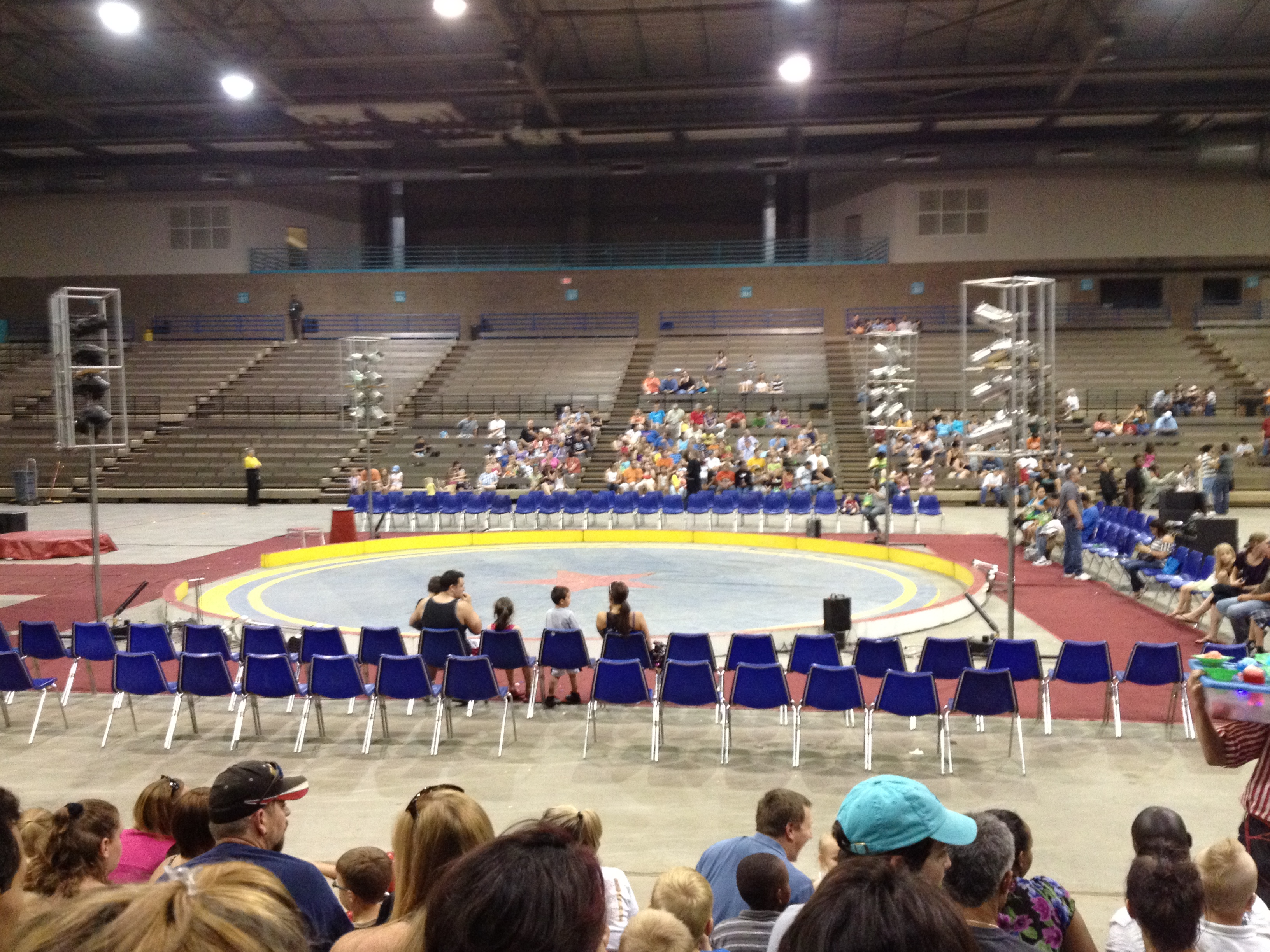 Interior of Hale Arena in Kansas City, Missouri from East bleachers facing west.